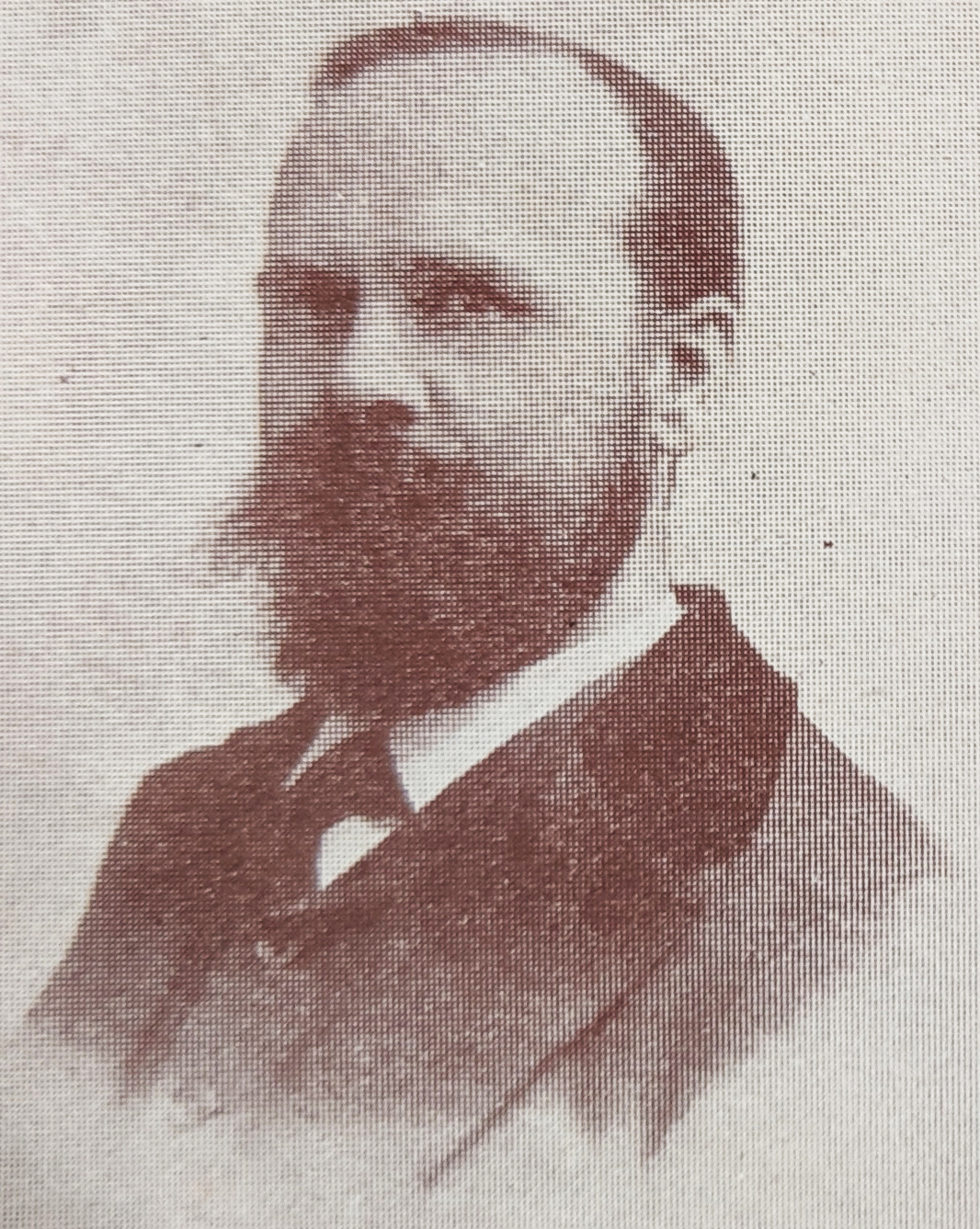 The postcard belonged to Henry Meulen and shows three pioneers of individualist anarchism (trois pionniers de l'individualisme an-archiste)